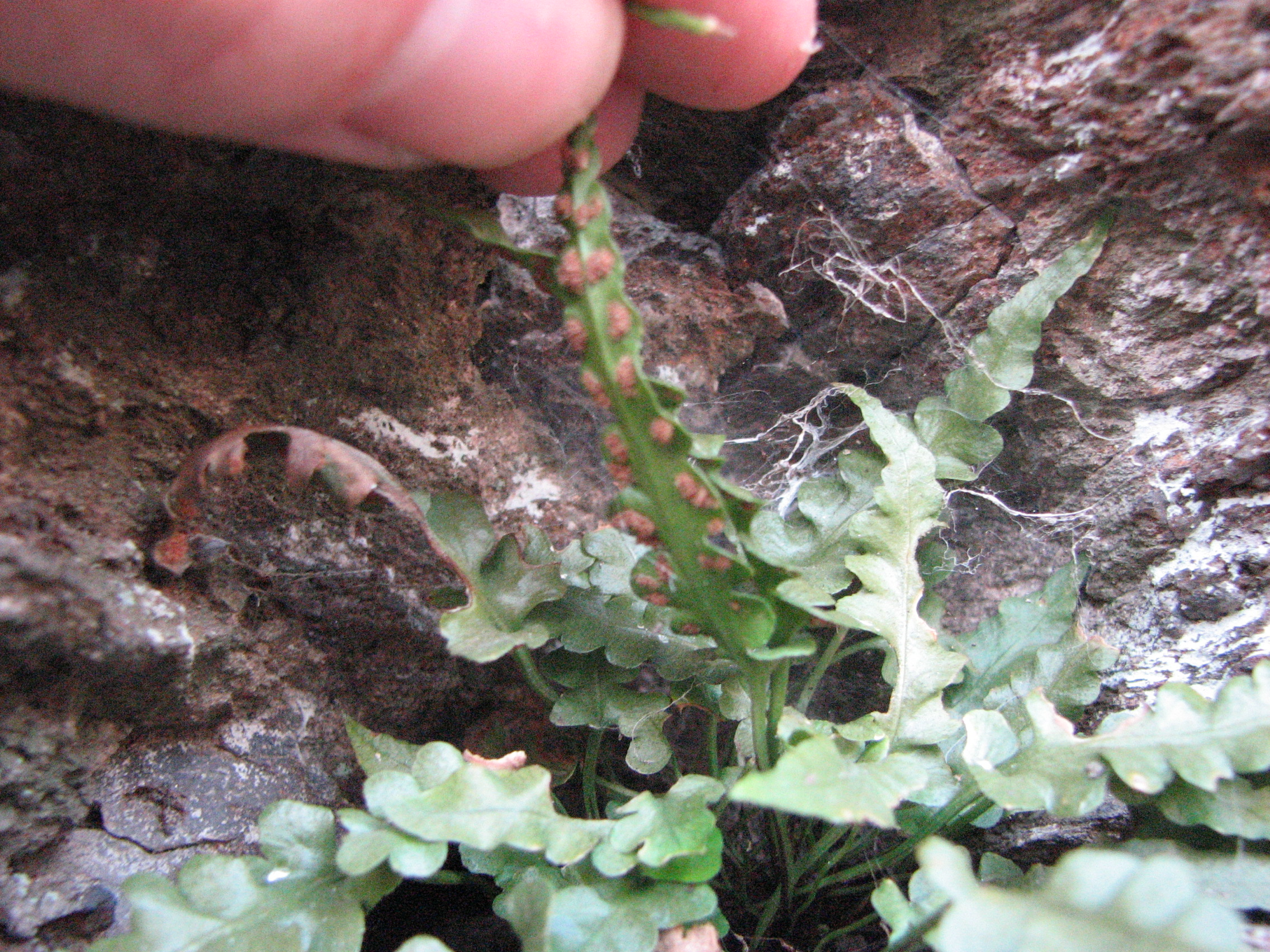 Clump of Asplenium pinnatifidum, showing sori, at Erb's Mill, Lancaster County, Pennsylvania.